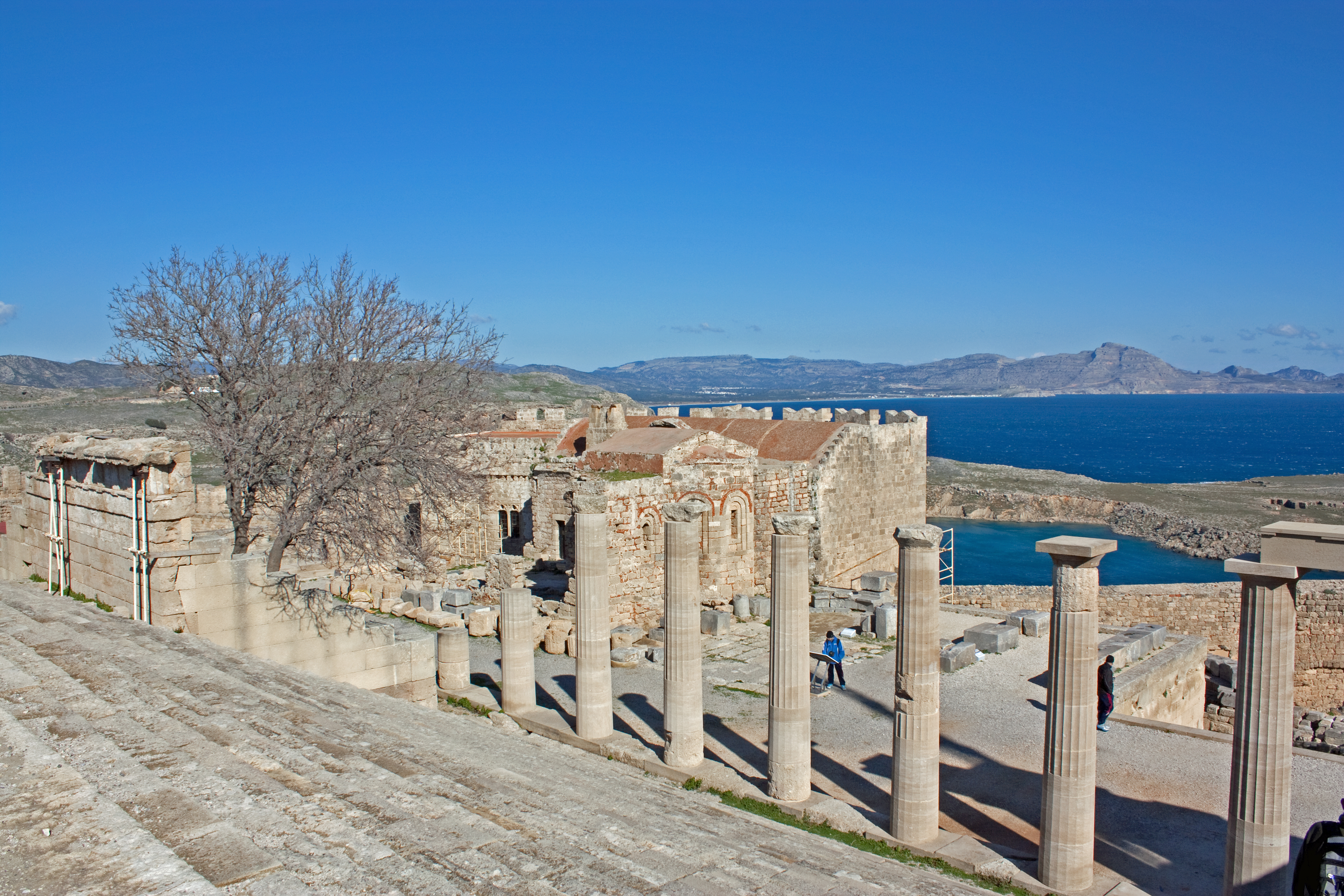 Church and columns from the top of the monumental staircase on the acropolis of Lindos in Rhodes, Greece.